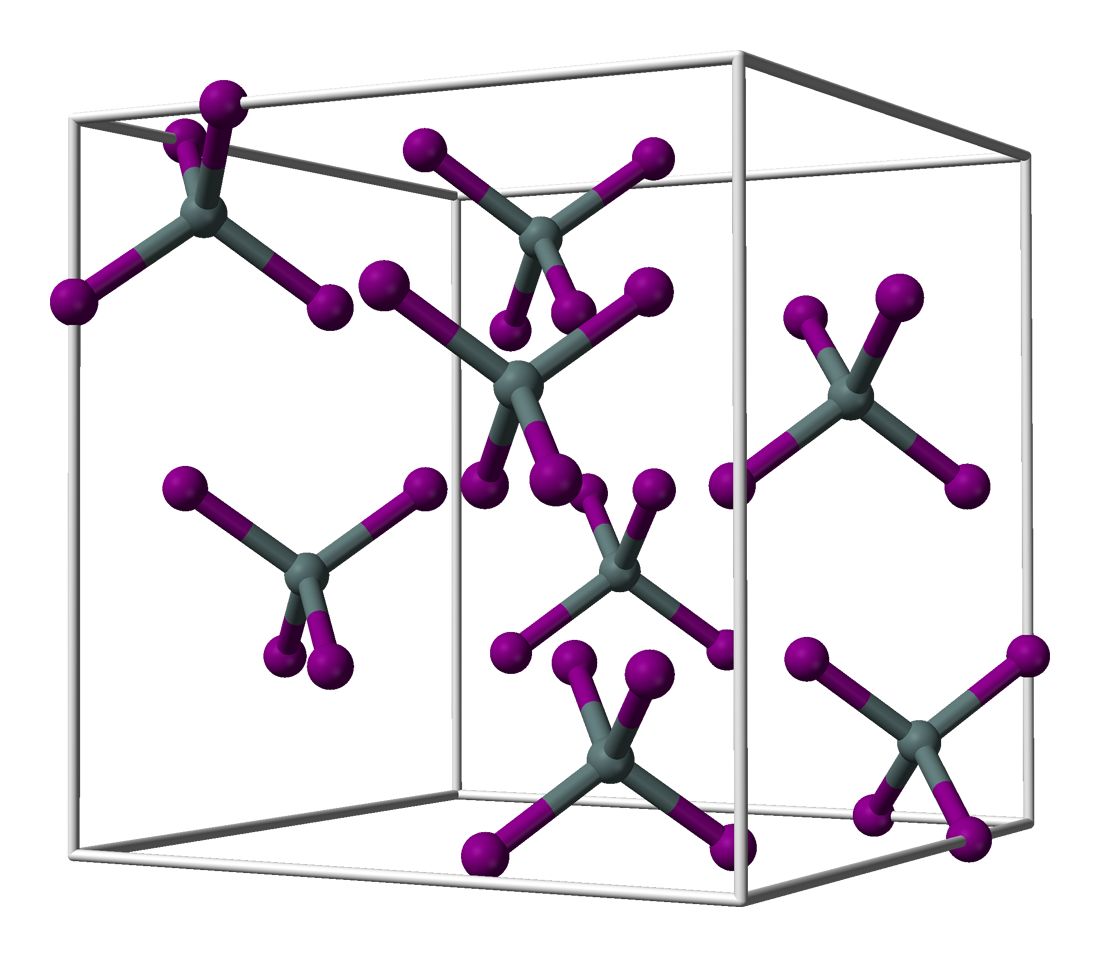 Ball-and-stick model of the unit cell of tin tetraiodide, SnI4. X-ray crystallographic data from F. Meller and I. Fankuchen (1955). "The crystal structure of tin tetraiodide". Acta Crystallographica 8: 343-344.